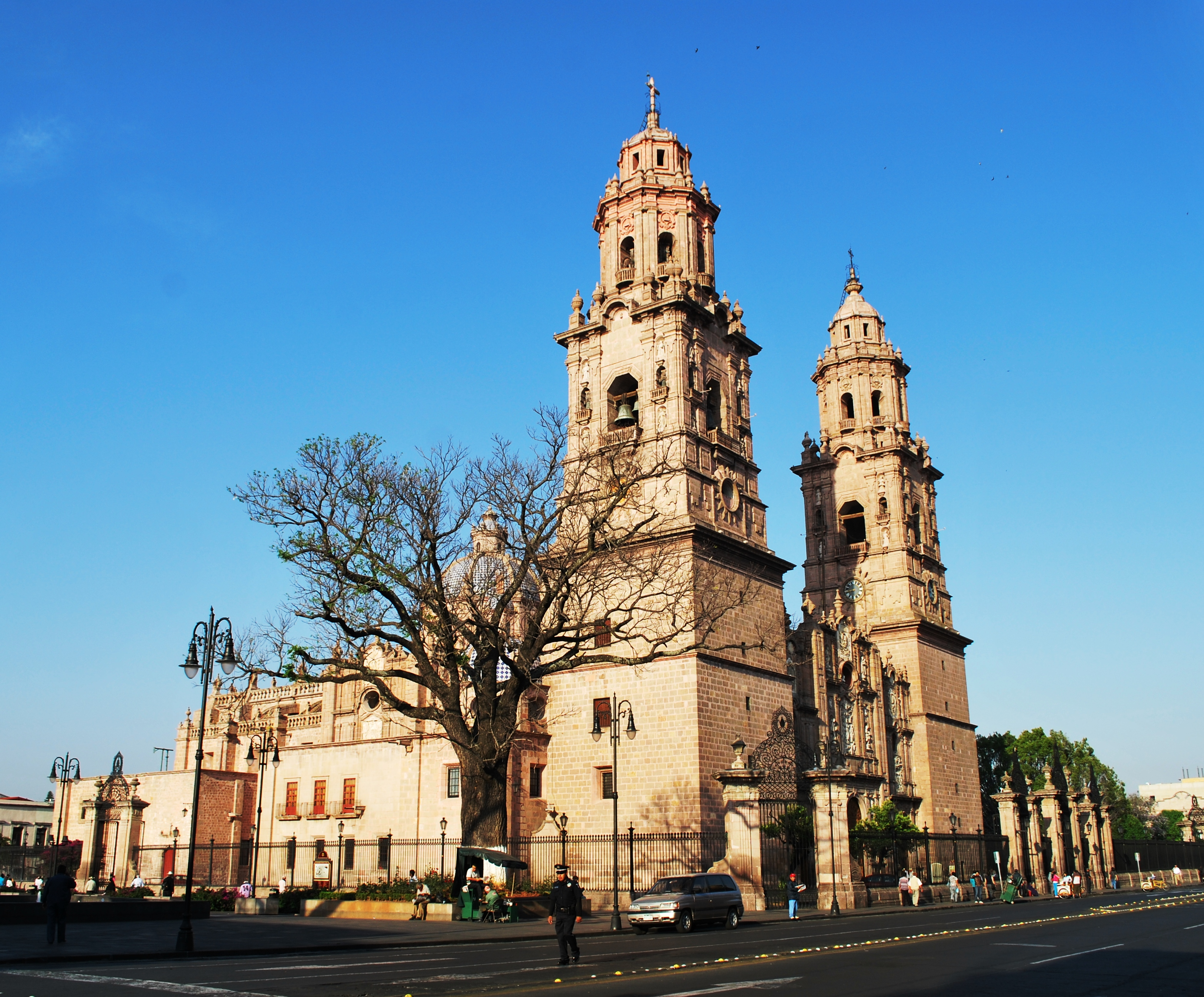 Morelia Cathedral